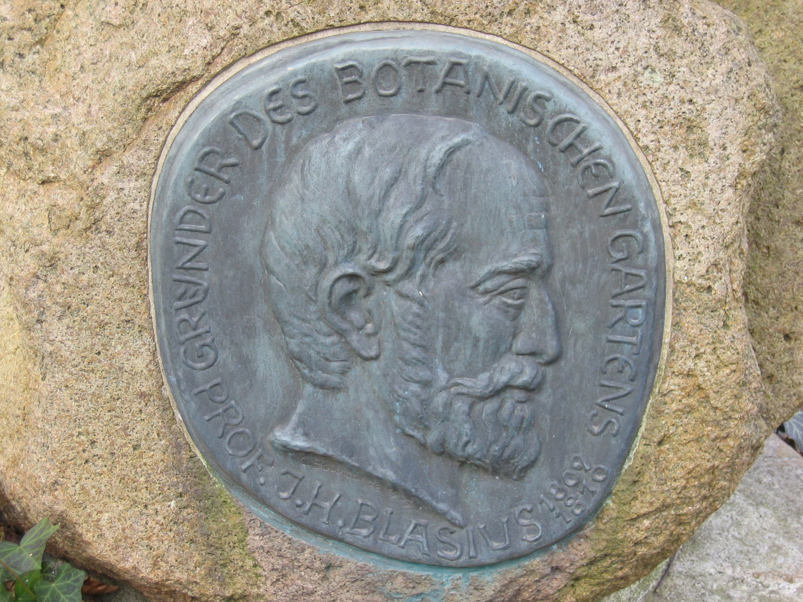 Johann Heinrich Blasius, a German zoologist Source: Own photography, 2006-03-24 relief of Johann Heinrich Blasius in the Botanical Garden Braunschweig, Lower Saxony, Germany